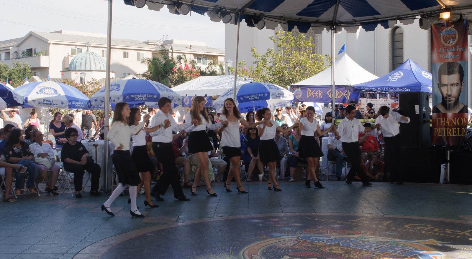 Another weekend, another Greek cultural festival at an Orthodox church. This festival takes place at the beautiful St. Sophia's Cathedral, consecrated in 1948, located in the Byzantine-Latino Quarter located immediately south of Koreatown.